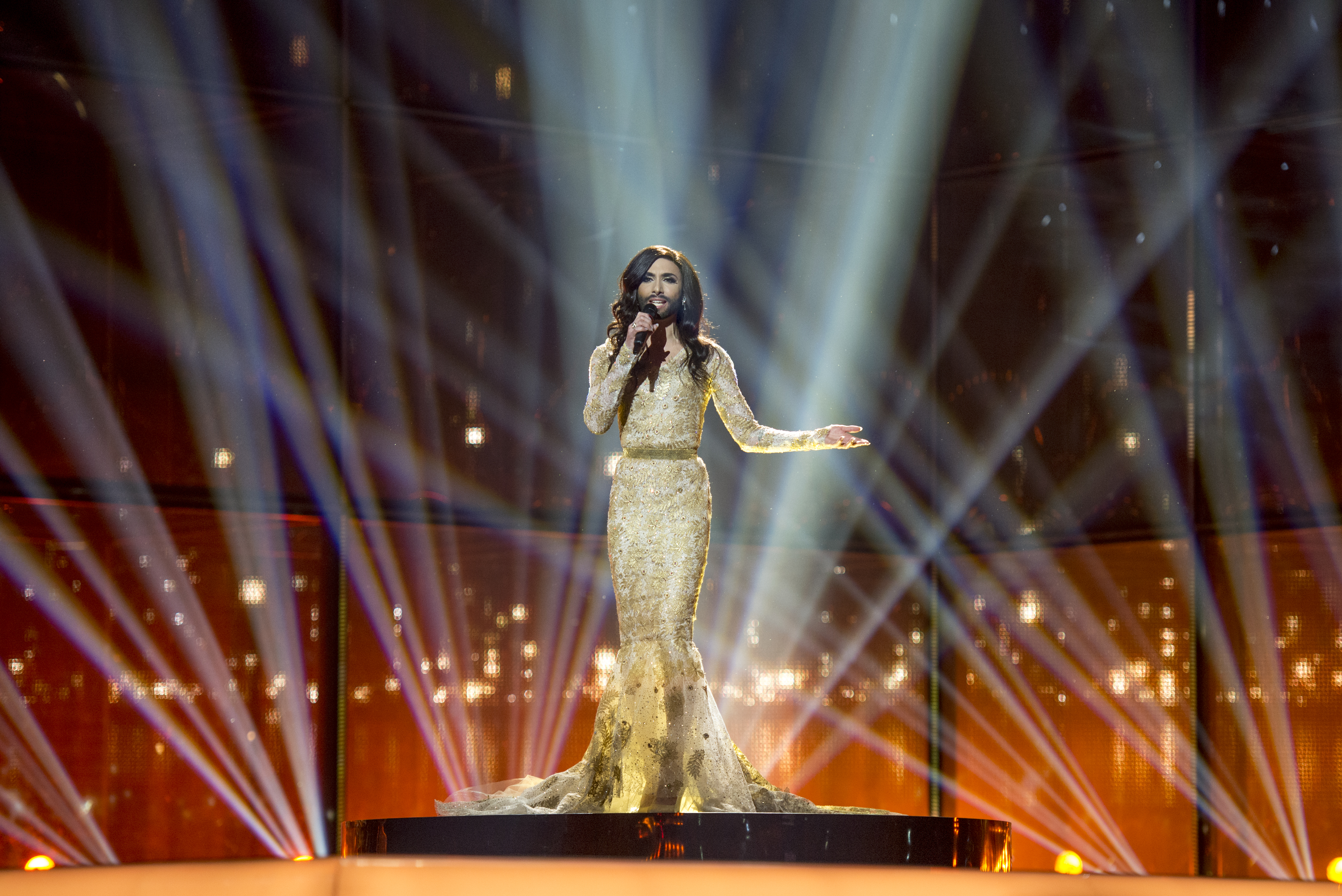 Conchita Wurst representing Austria with the song "Rise Like a Phoenix" during the first dress rehearsal of the second semi final of the Eurovision Song Contest 2014 Copenhagen. (Help translate this text)